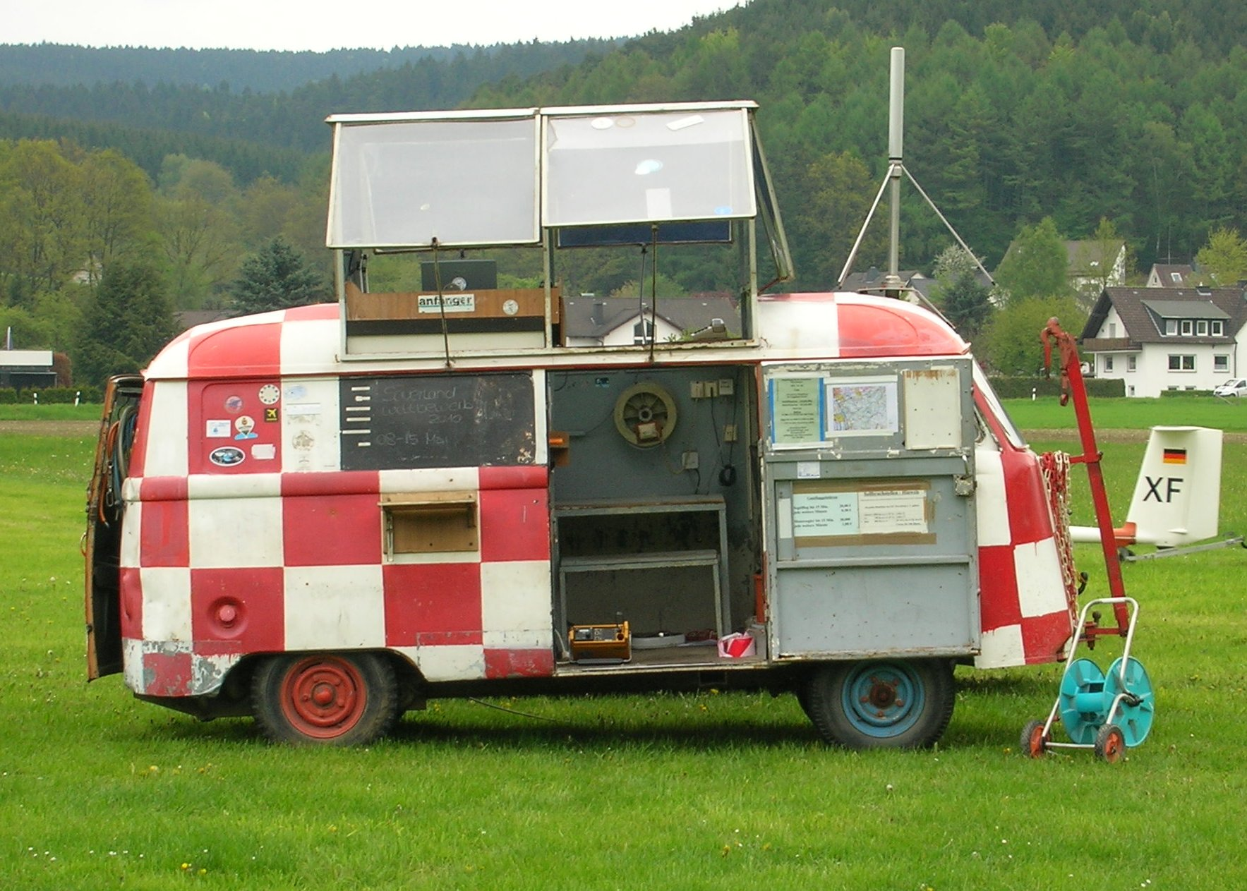 Mobile ATC tower at the glider airfield Oeventrop-Ruhrwiesen in Oeventrop, Germany during the local soaring competition Sauerlandwettbewerb in 2010.